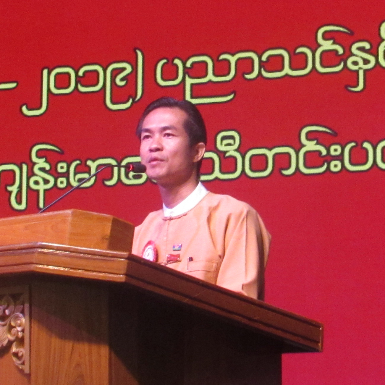 L Phaung Sho at School Health Week Event at Loikaw မြန်မာဘာသာ: လွိုင်ကော်မြို့တွင် ပြုလုပ်သော ကျောင်းကျန်းမာရေးသီတင်းပတ်အခမ်းအနားတွင် တွေ့ရသော ဦးအယ်ဖောင်းရှို